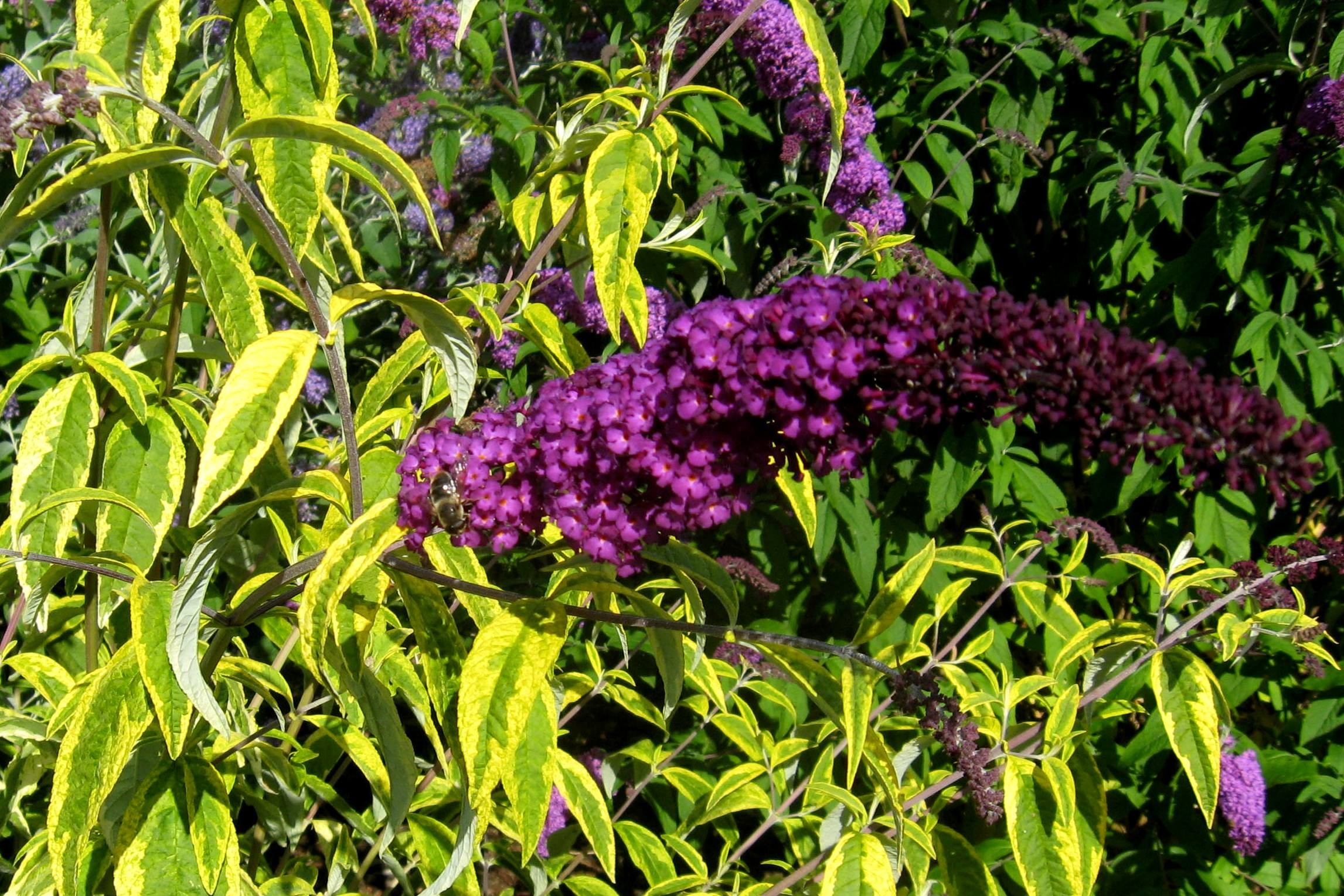 Photo of Buddleja cultivar 'Santana' taken at Longstock Park, UK, August 2012